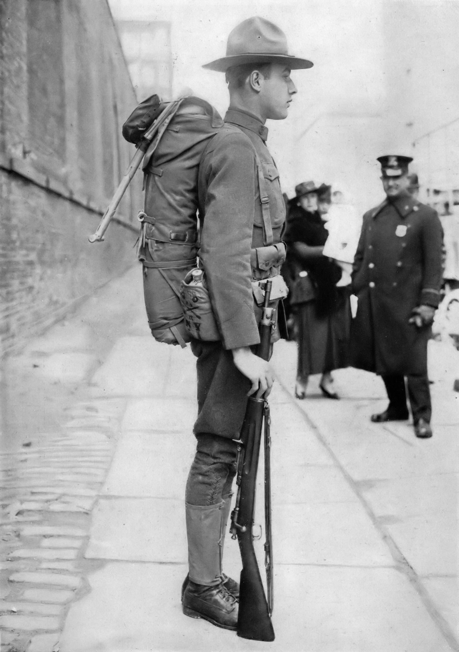 A NATIONAL GUARDSMAN COMPLETELY EQUIPPED FOR SERVICE. On his back this American fighting man carries his blanket roll, small shovel, bat, etc. His canteen is at his belt. He is armed with a .30 caliber U. S. Army rifle. Minimum weight for maximum efficiency is the principle upon which his whole outfit has been designed.